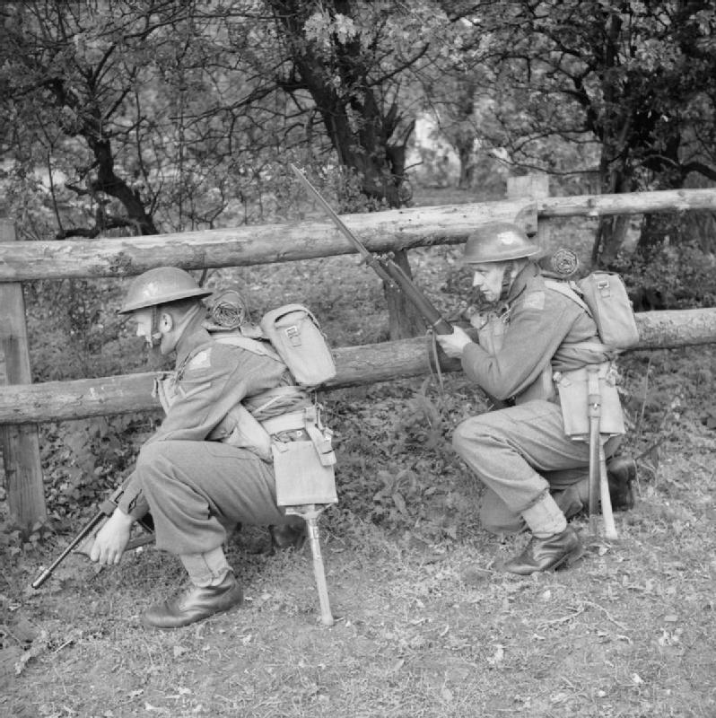 The British Army in the United Kingdom 1939-45 Infantry of 46th (North Midland) Division 'on patrol' during an exercise in Eastern Command, 26 May 1941.